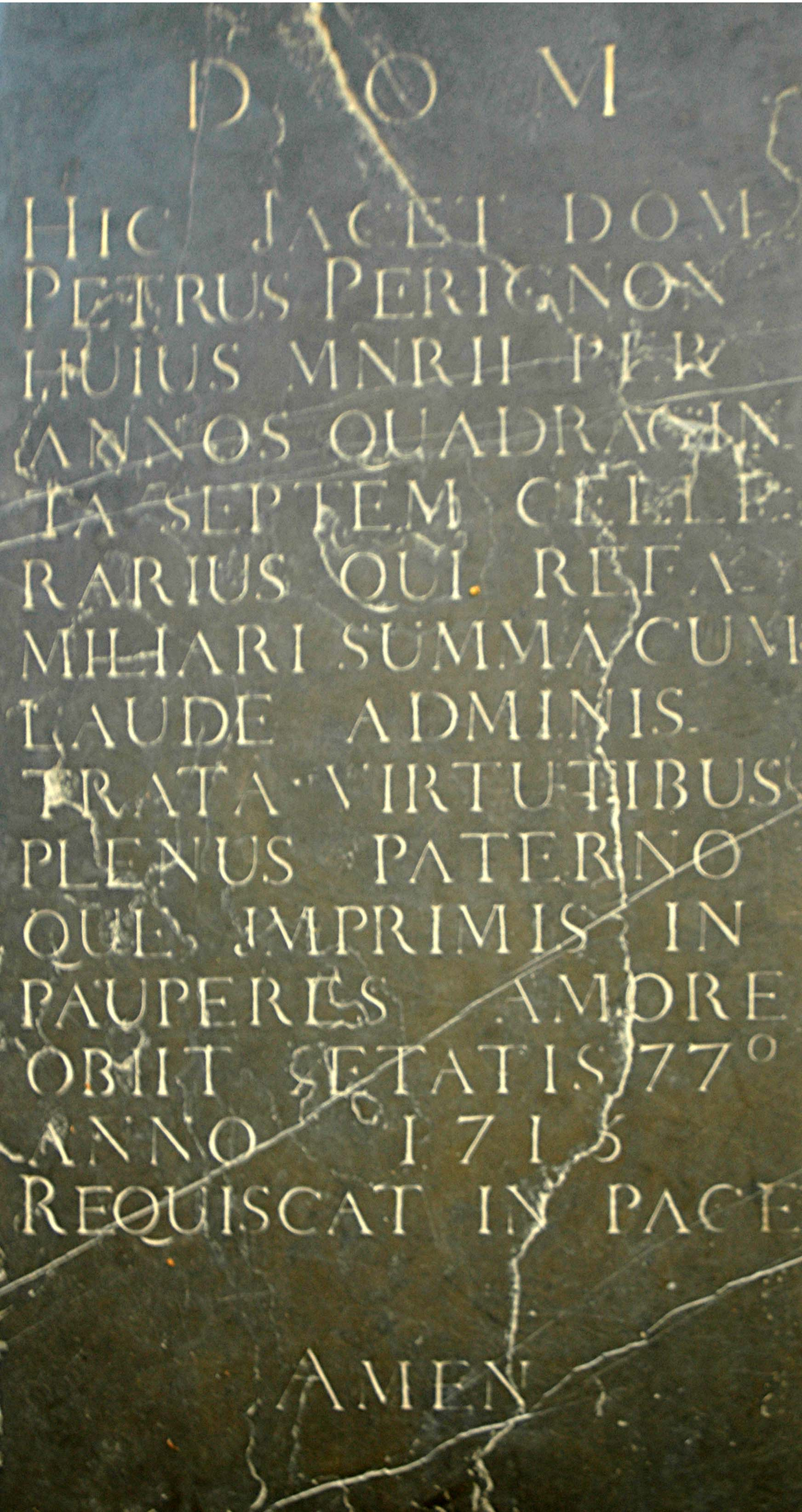 dom perignon gravestone hautvillers